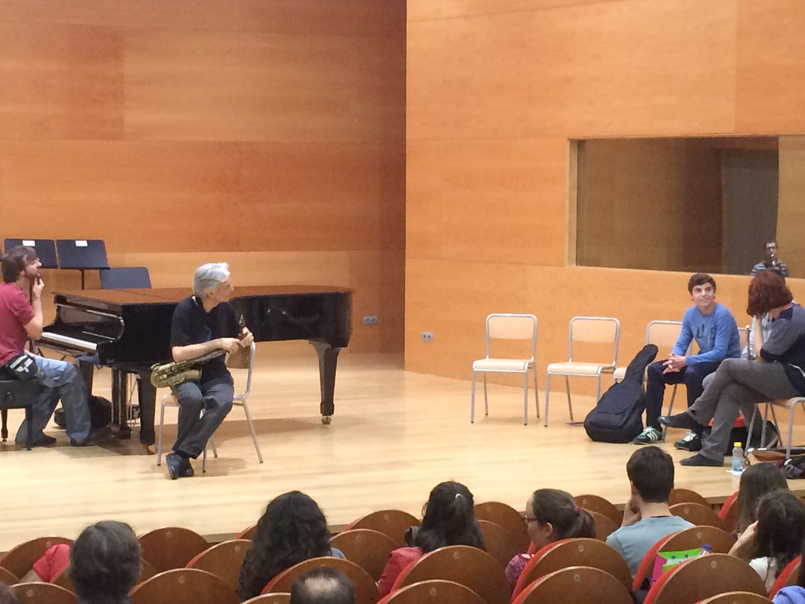 Master class in the Conservatory of Llíria.